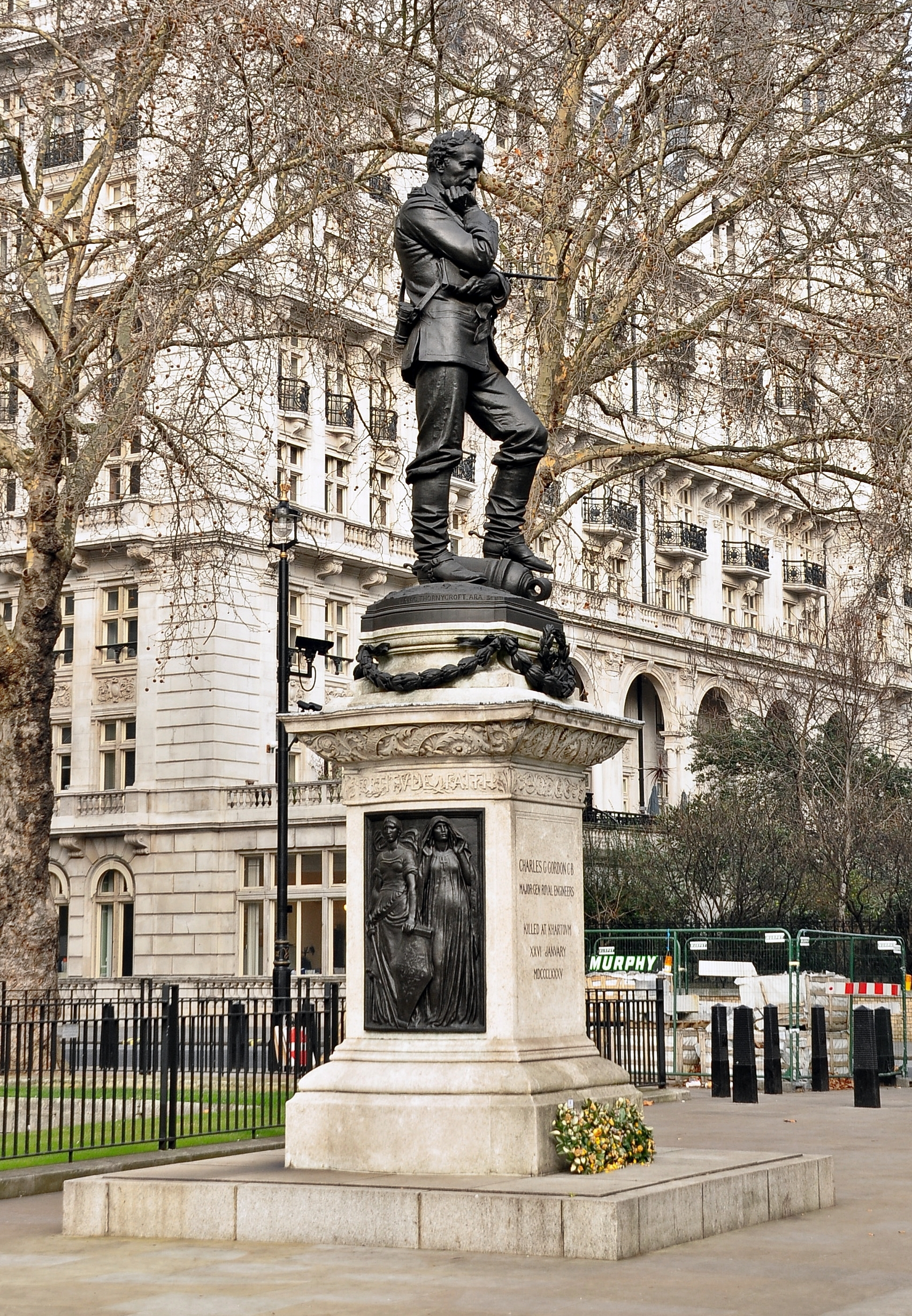 The memorial to General Gordon on the Victoria Embankment, East of the Ministry of Defence